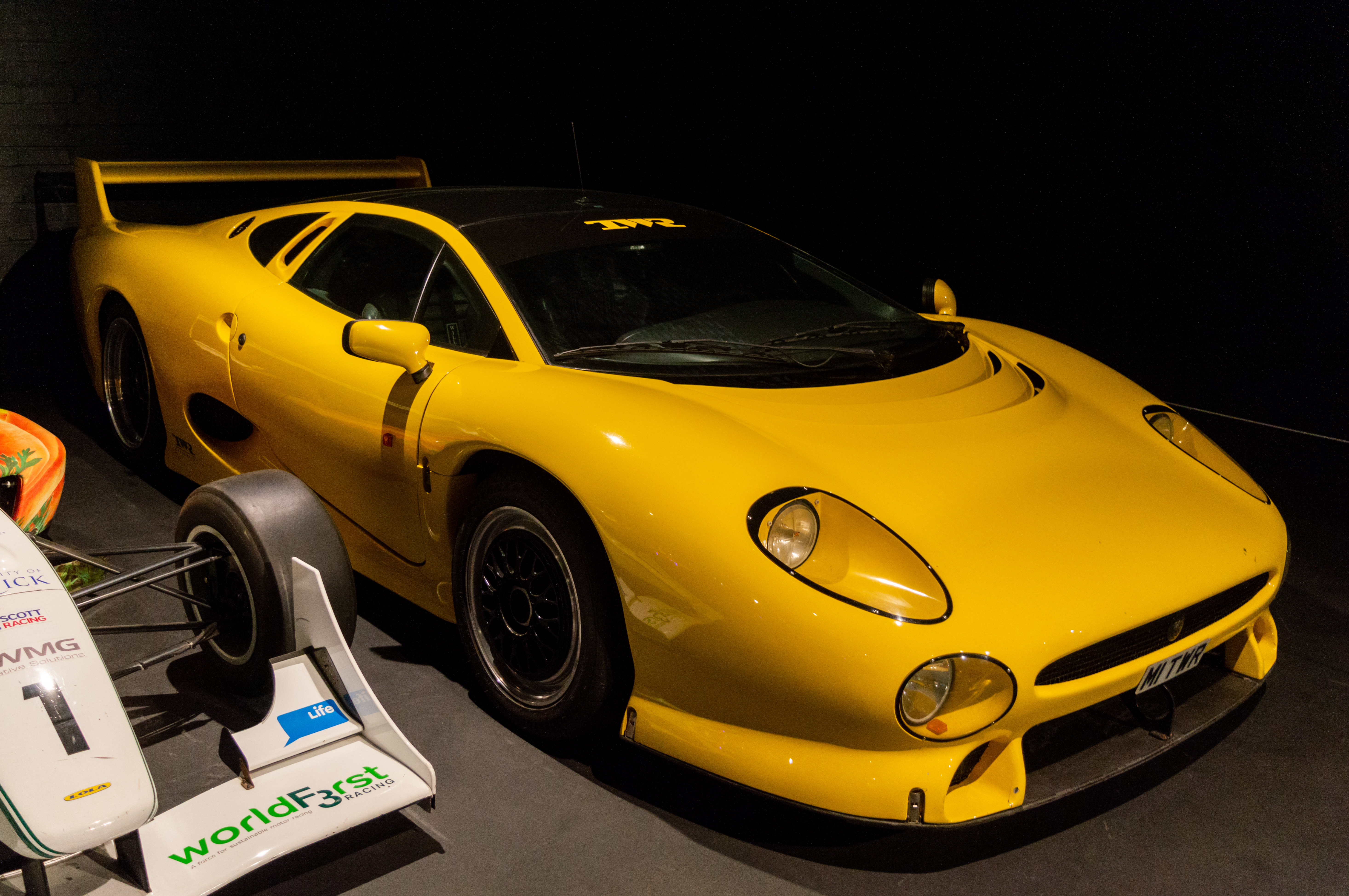 A yellow 1994 Jaguar XJ220S with license plate "M1TWR" at the Coventry Transport Museum.